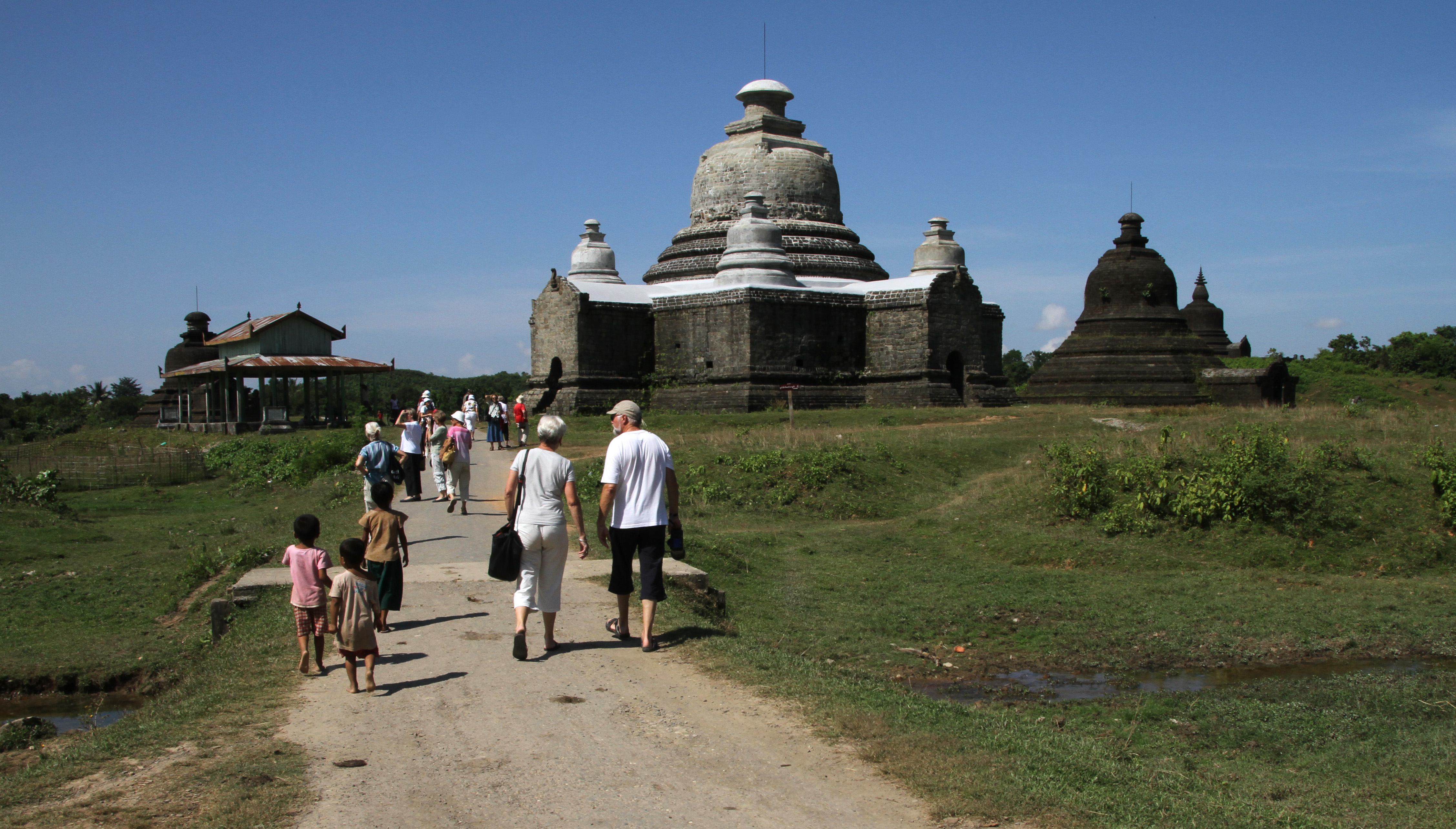 Laymyethna temple in Mrauk U